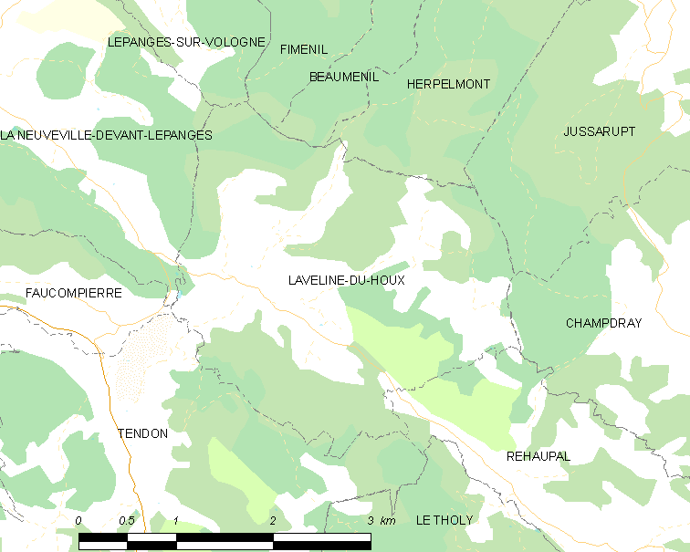 Map of French municipality Laveline-du-Houx